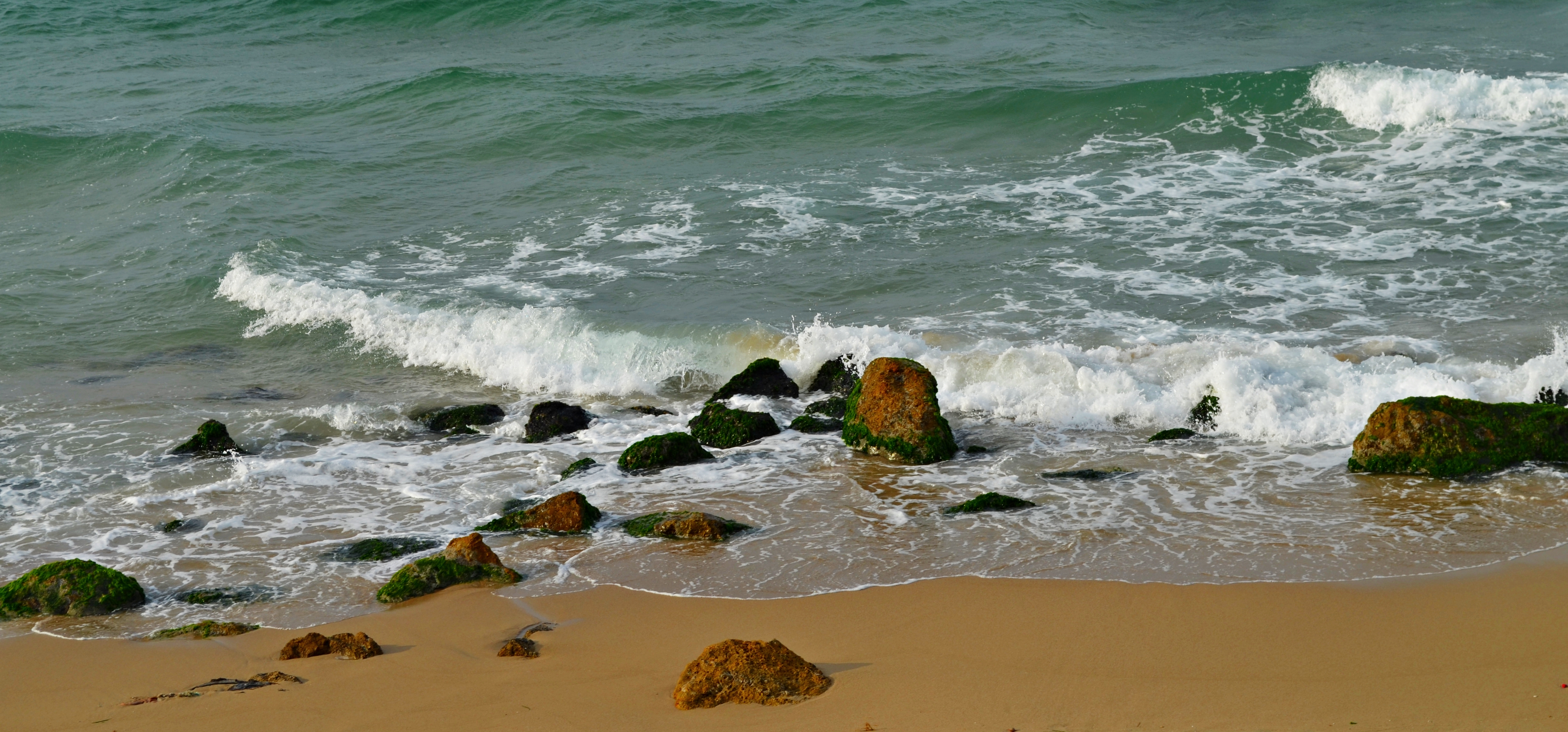 Mediterranean beach in Alexandria, Egypt